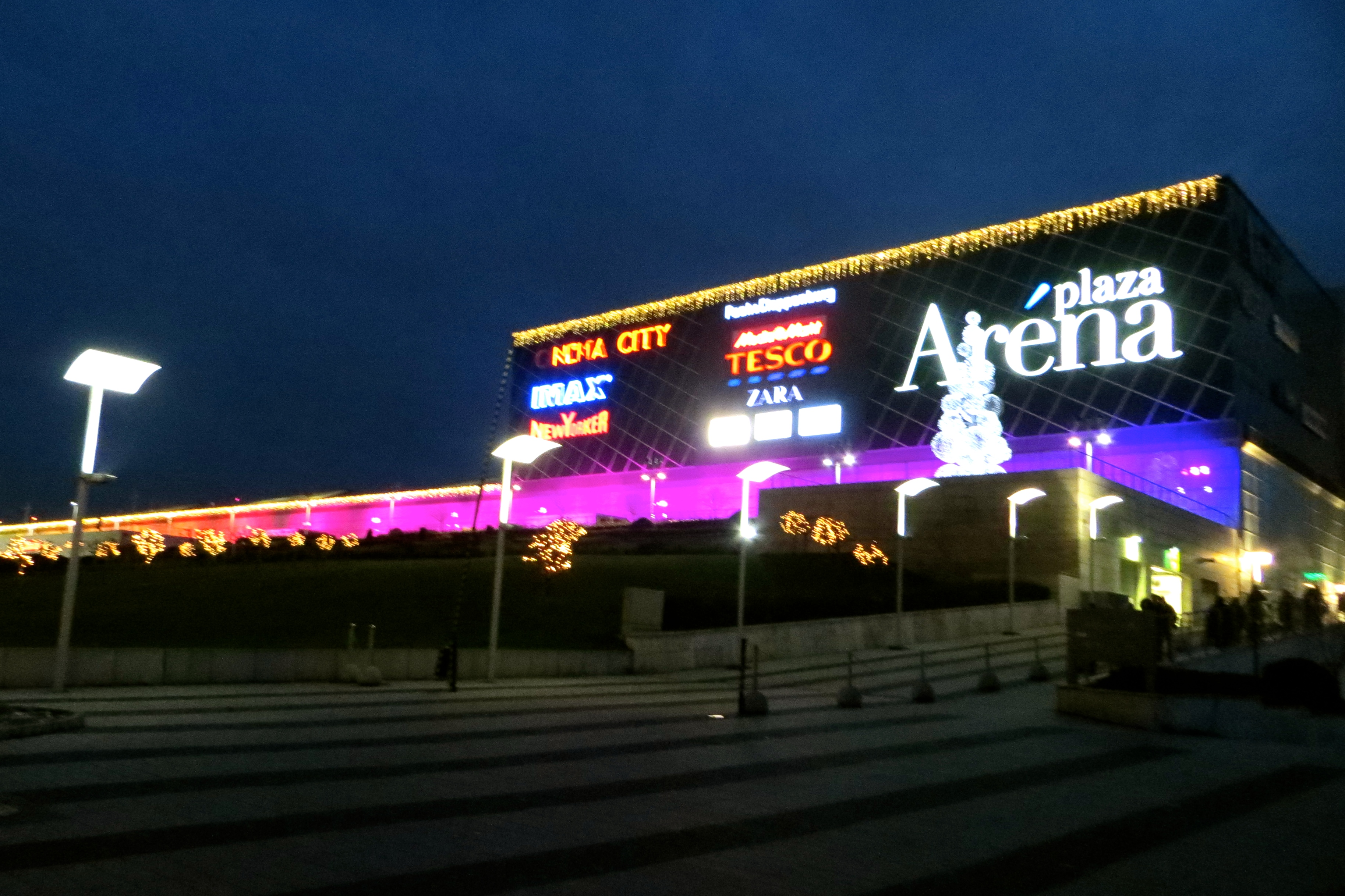 Arena Plaza Budapest by night, decorated with lights for the holidays.